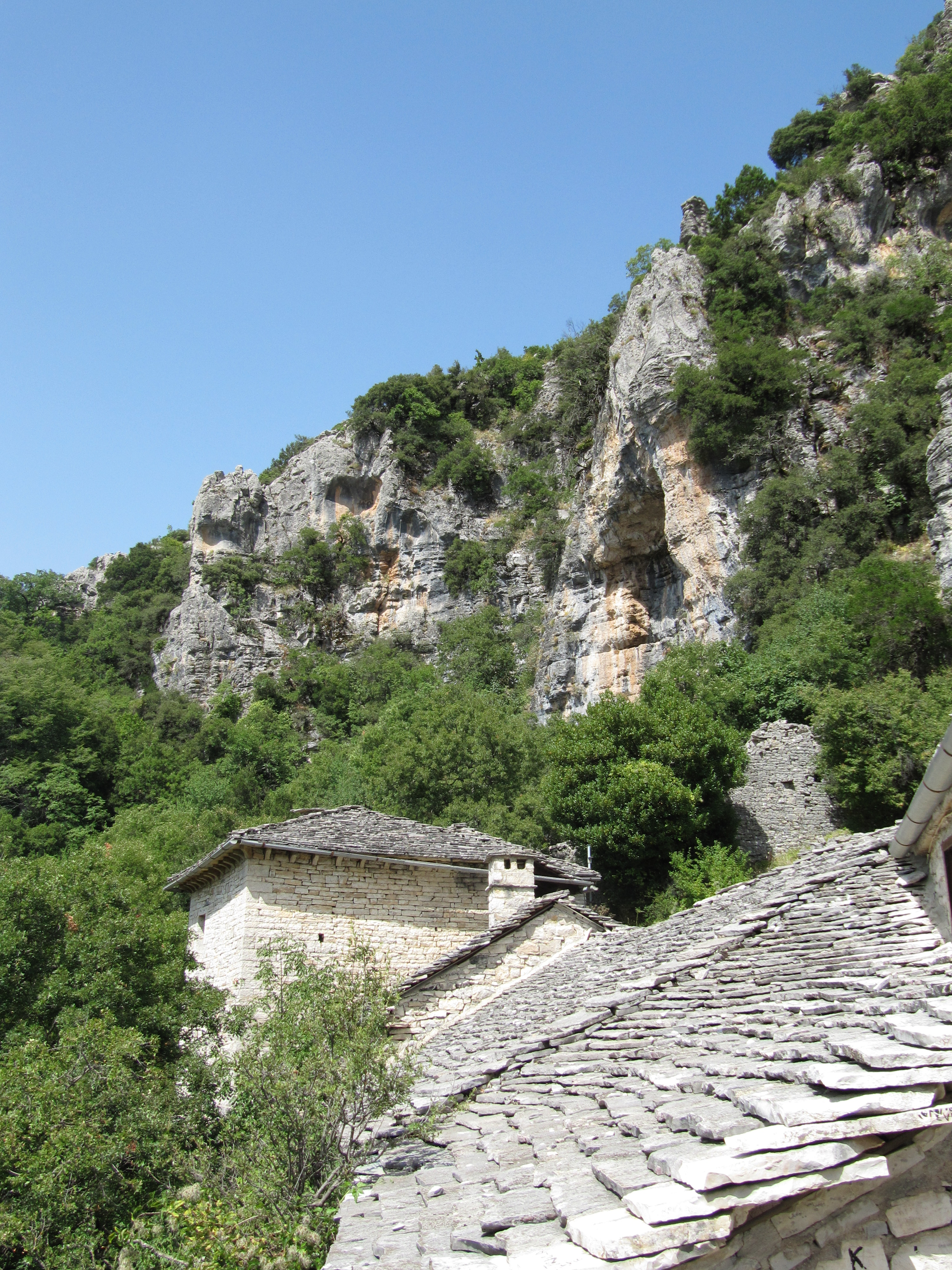 Rooftops of the Monastery of Saint Paraskevi